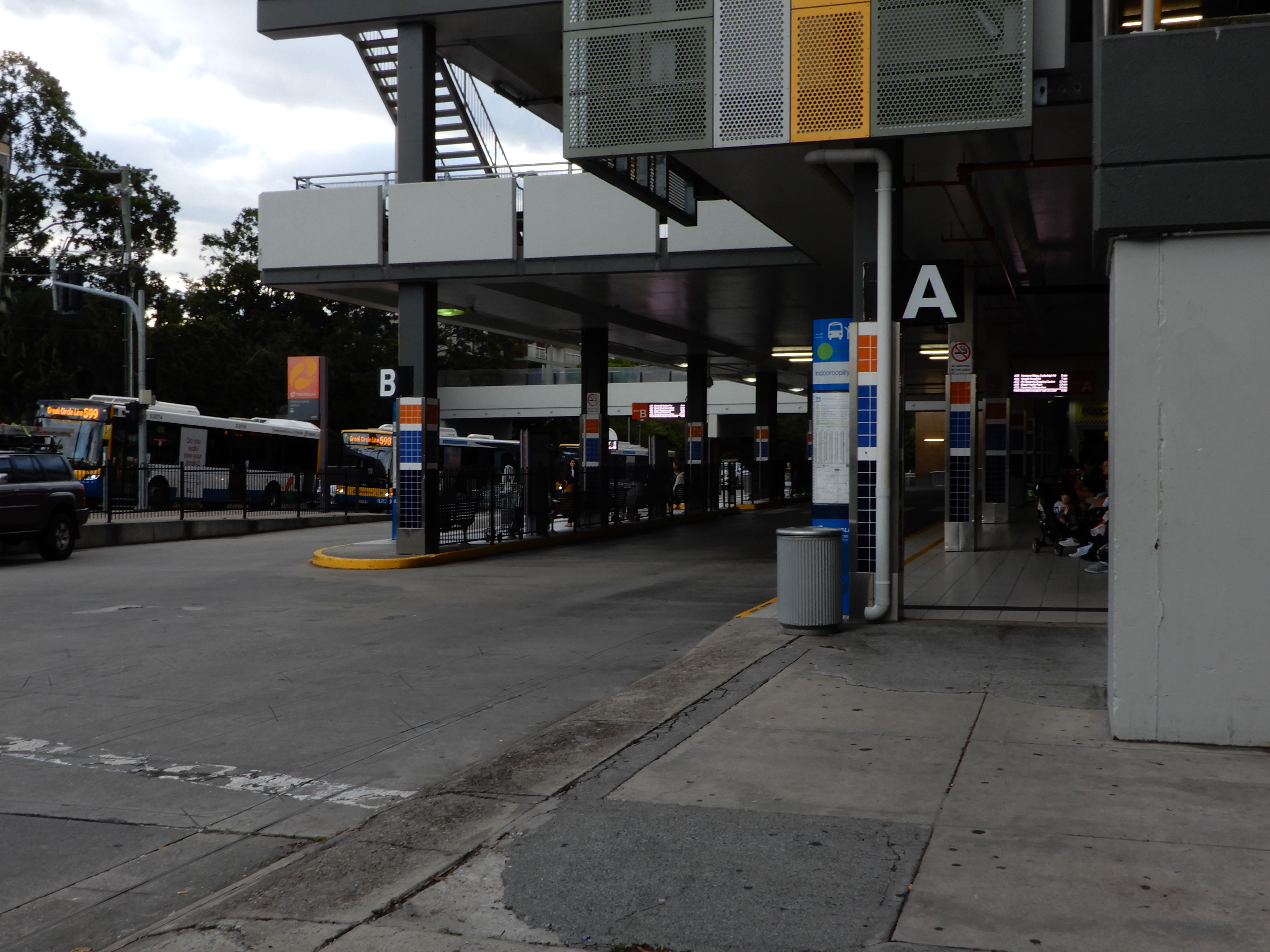 Indooroopilly bus station, seen on July 1, 2019. The image consists of, from left to right, Platforms C, B and A. Three Brisbane Transport buses are seen on Platform C; the frontmost's fleet number being S2074.